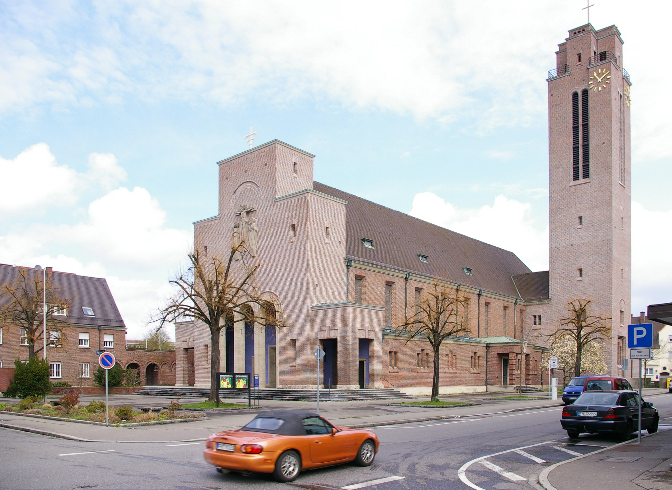 The Saint Petrus Canisius Church at Friedrichshafen is in the Nordstadt (North of the Center) in Charlottenstraße